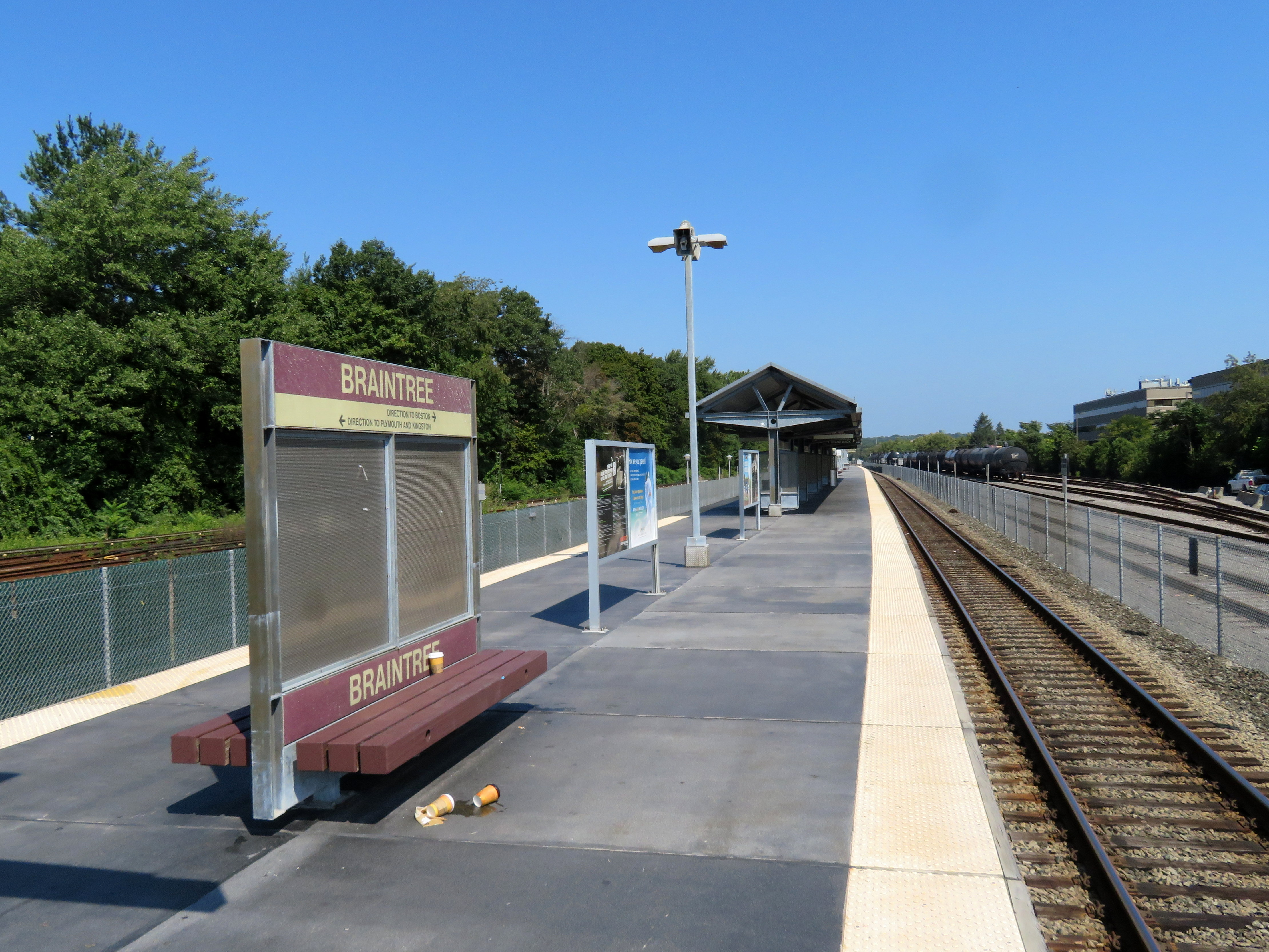 The 1997-opened commuter rail platform at Braintree station in August 2018